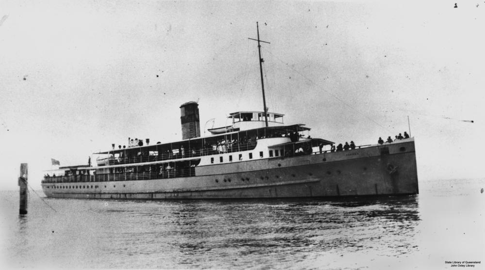 Passenger ferry SS Doomba Doomba the Brisbane Tug and Steamship Company's 750 GRT, twin screw passenger service vessel, previously the minesweeper HMS Wexford, official number 147468, length overall 231 feet. Doomba had accommodation for 1,524 passengers and ran a bay excursion service to Bribie Island and Redcliffe from Brisbane. Her maiden voyage on Saturday 24 November 1923 was reported in the Brisbane Courier. (Description supplied with photograph.).